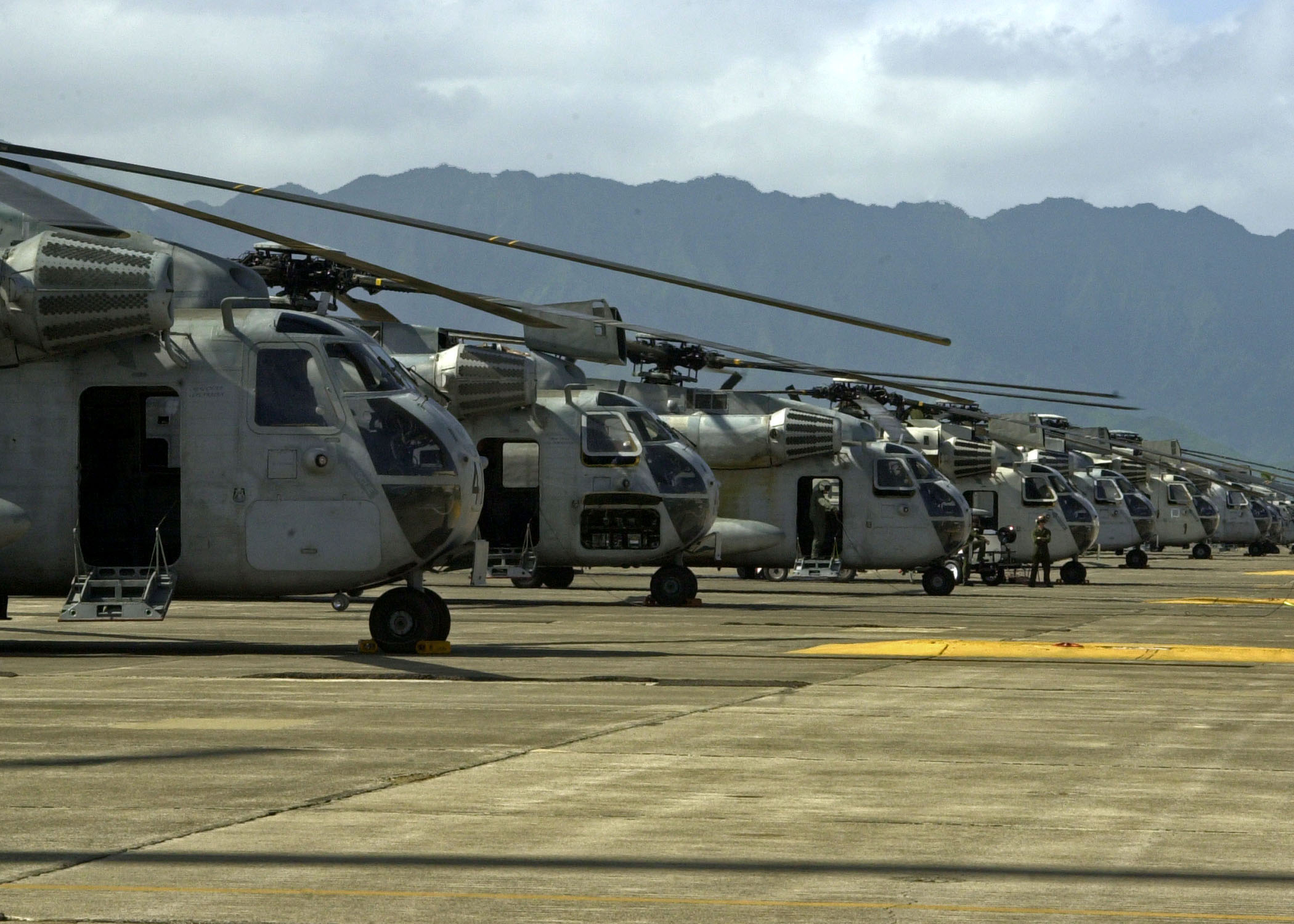 A long line of CH-53D helicopters with Heavy Helicopter Squadron 363, Marine Aircraft Group 24, stand ready at Marine Corps Base Hawaii on 12 January 2006 in support of the Hawaii Combined Arms Exercise. USMC photo by Sergeant Joel A. Chaverri.